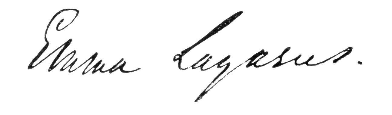 Emma Lazarus Signature